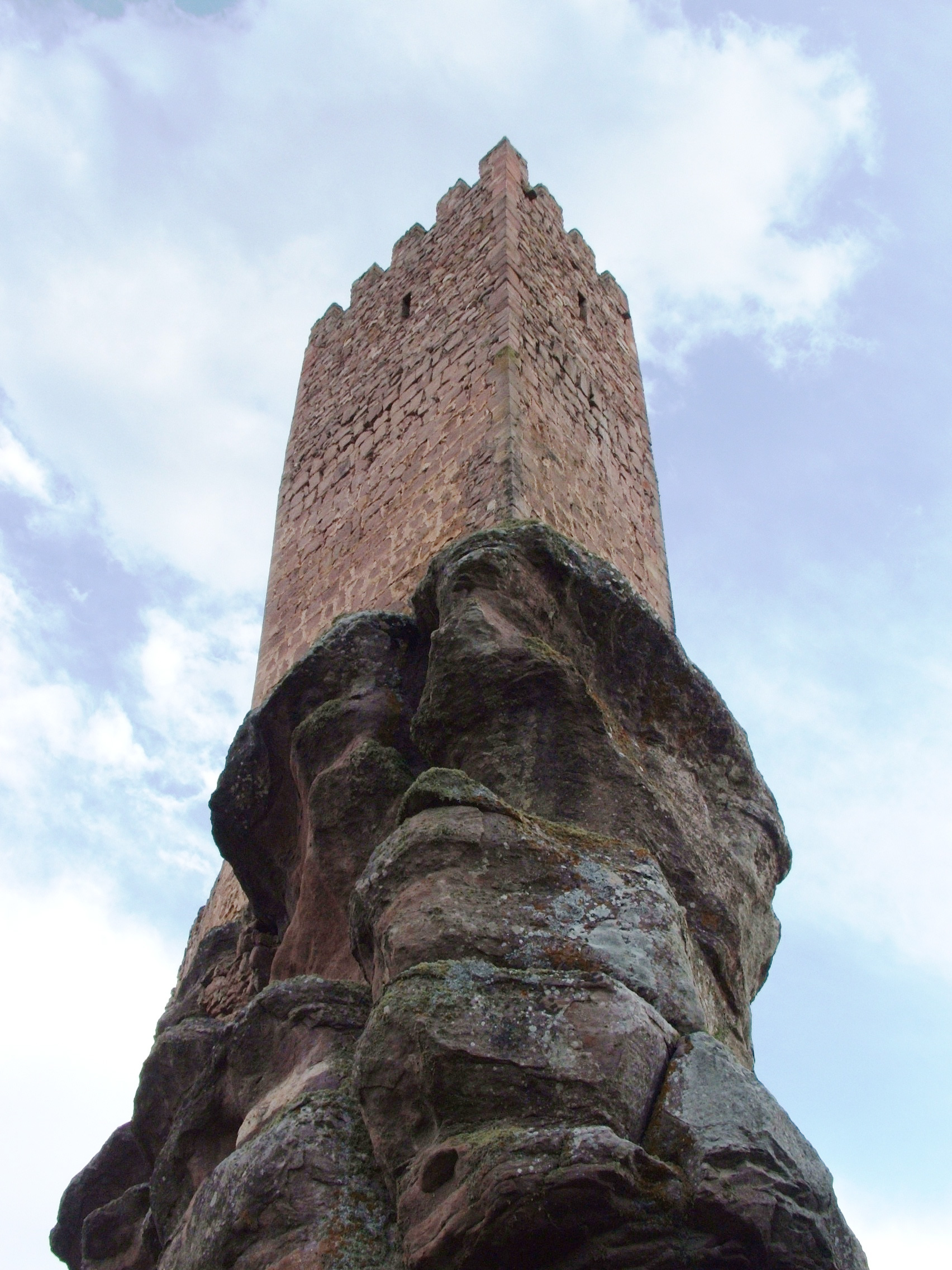 Zafra castle (Campillo de Dueñas, Guadalajara, Spain).